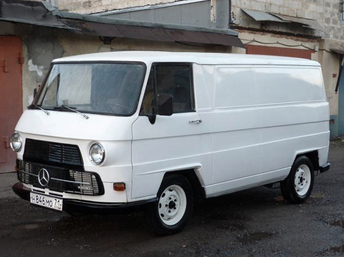 Introduced in 1963 as the DKW F1000 L. This van started with the three-cylinder 981 cc two-stroke DKW engine, but later received a Mercedes-Benz Diesel engine and was finally renamed a Mercedes-Benz in 1975.